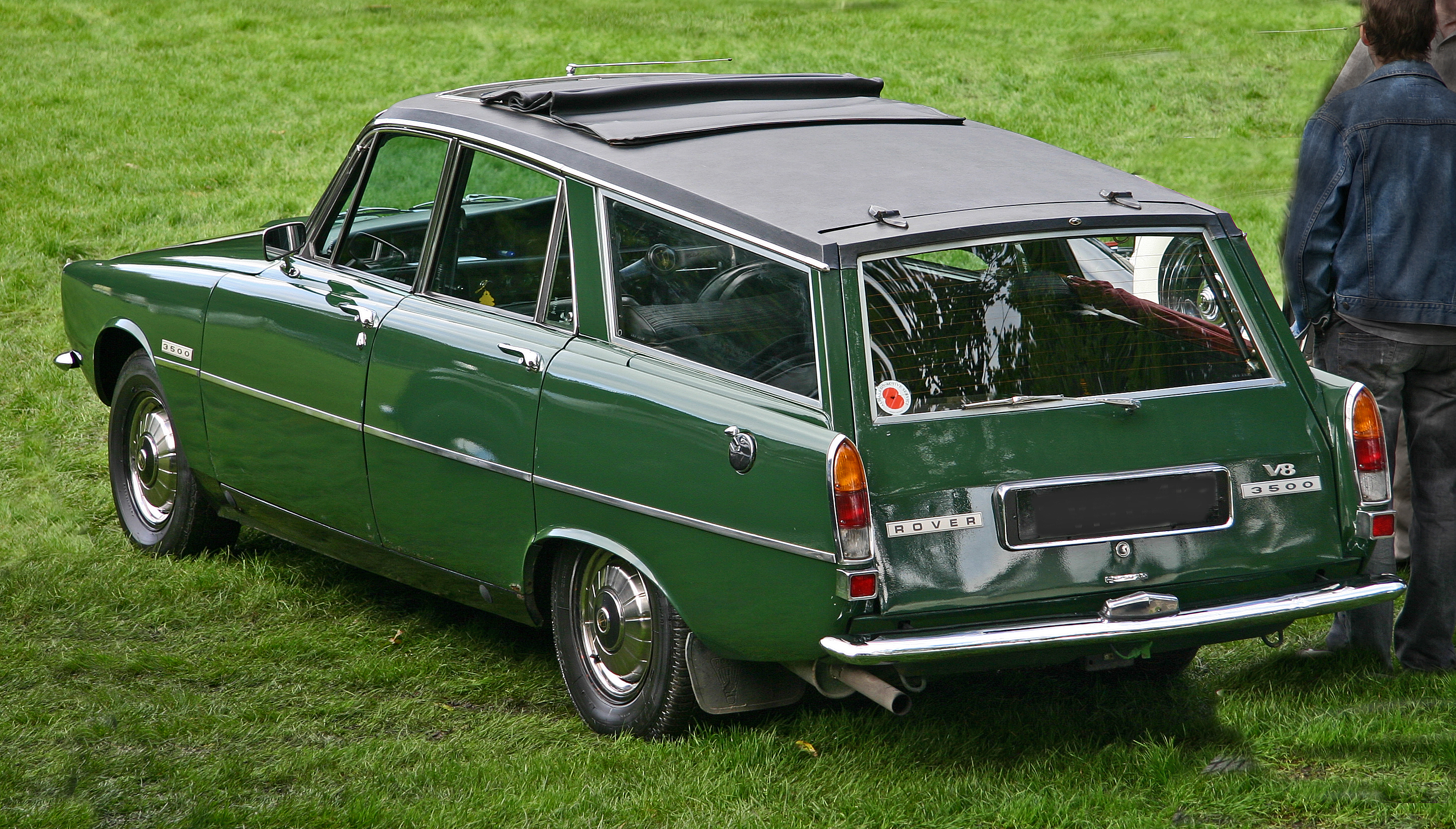 Rover 3500 Series II Estate. Estate conversions were made after cars were sold, usually on V8 cars. F.L.M. Panelcraft did the work, and the bodies were finished by Crayford, HR Owen or Hurst Park.